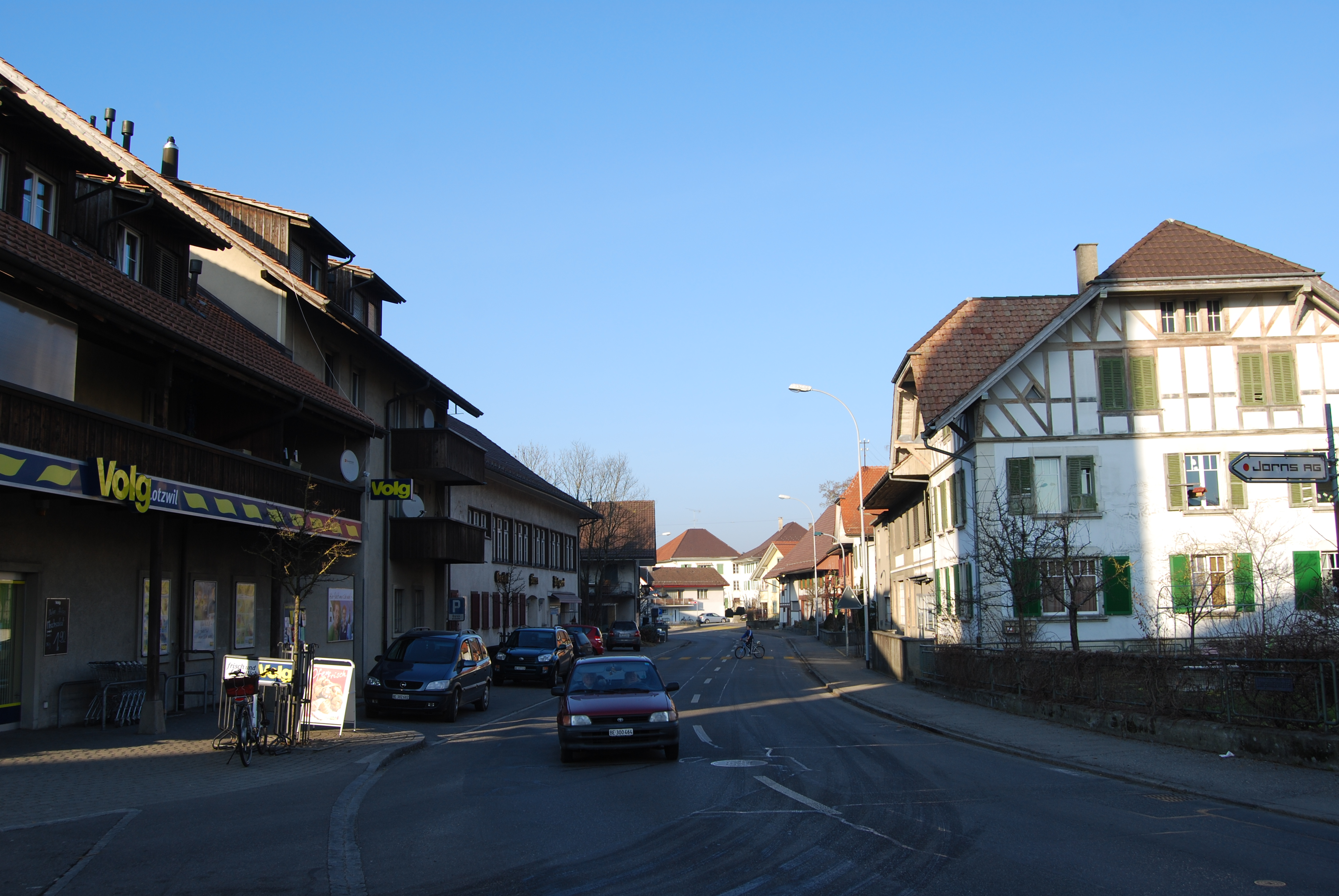 Lotzwil, canton of Bern, SwitzerlandEsperanto: Lotzwil, Kantono Berno, Svislando